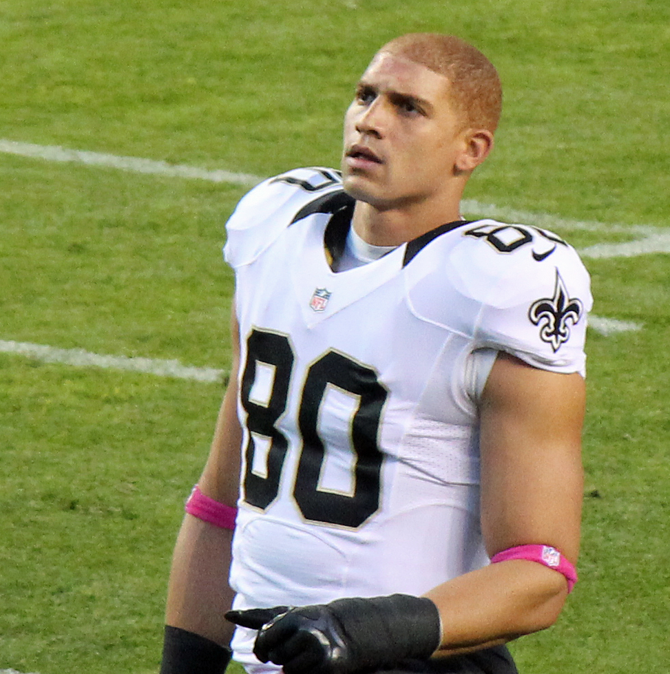 Jimmy Graham, a player on the National Football League.